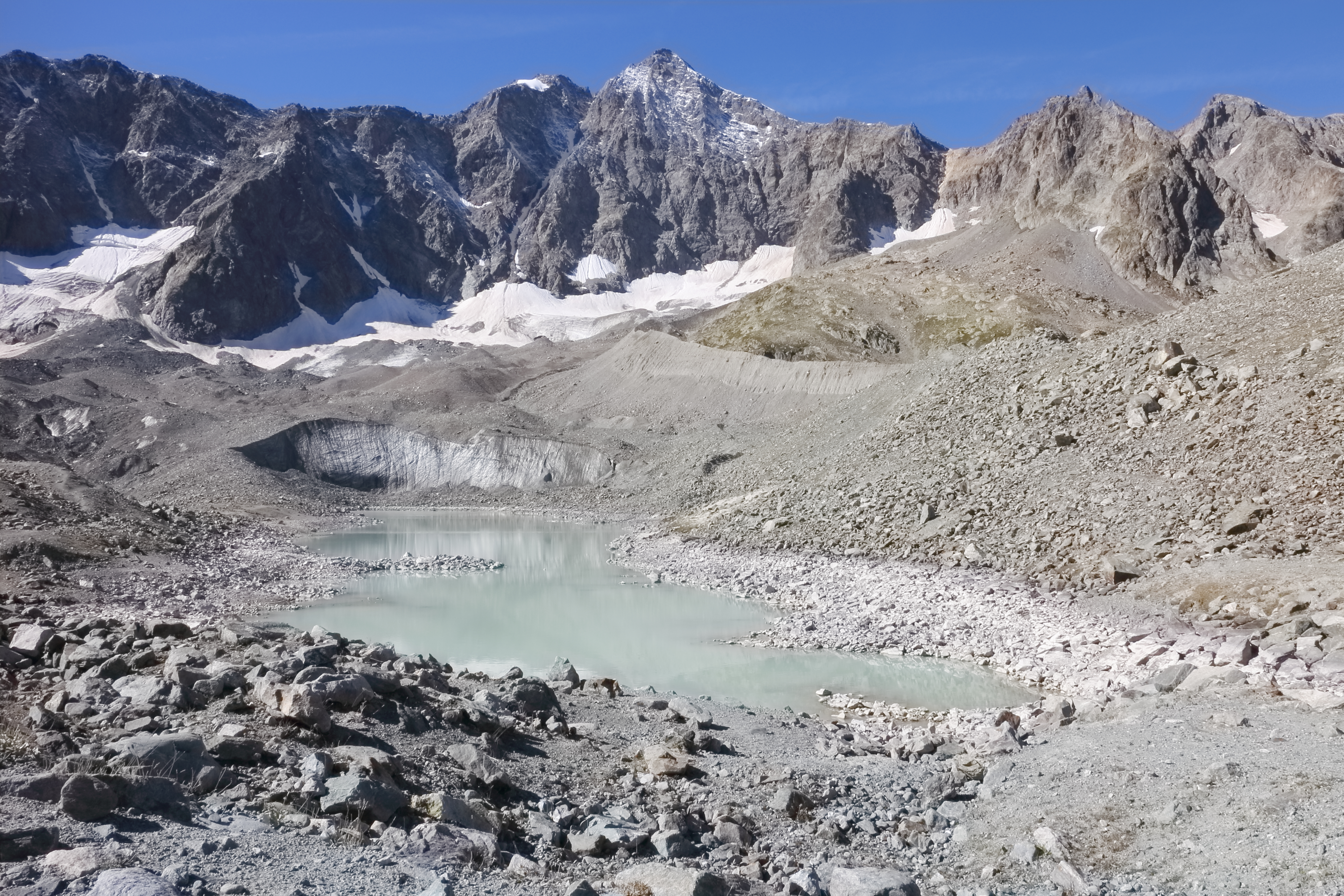 Lac du Glacier d'Arsine (2465 m.) Natural Phenomenon in Ecrins National Park, France.